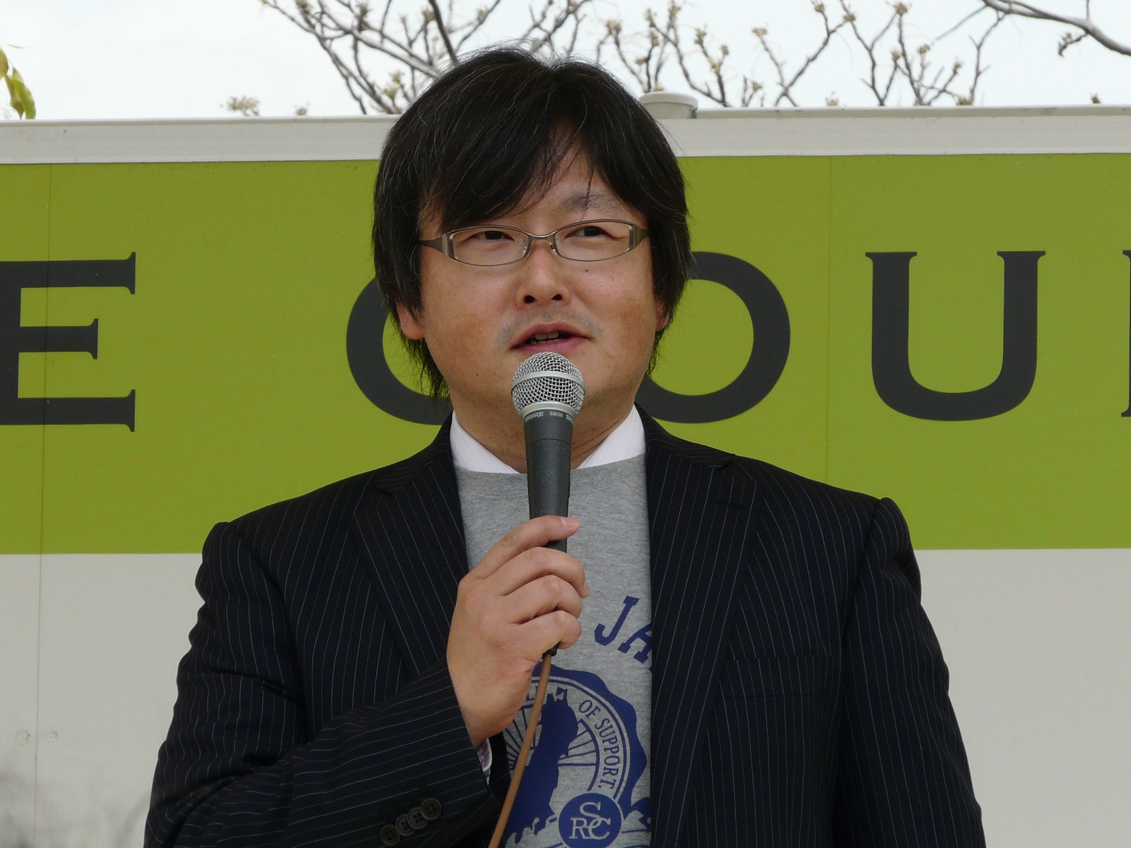 Tsuguo-Takenoue